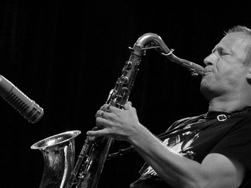 Mats Gustafsson